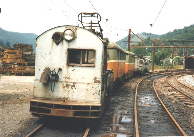 Meishin-Densha（明神電車）at Akenobe-mine（明延鉱山）,Oya town,Hyogo,Japan